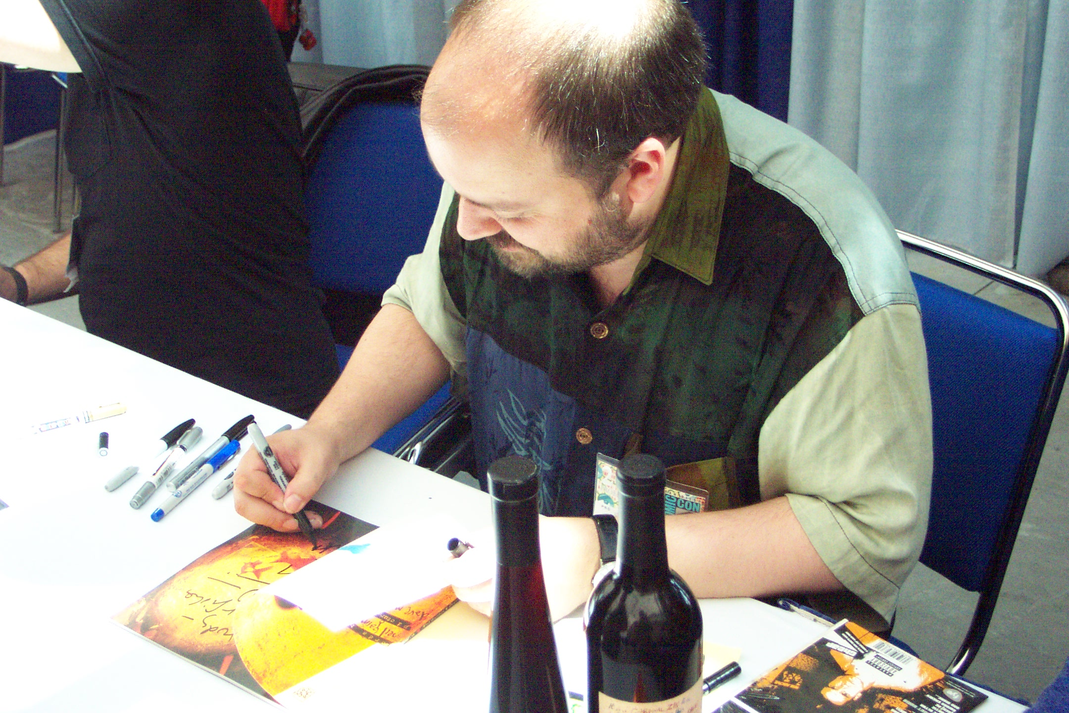 Dave McKean signs something. Is that "The Day I Swapped My Dad for Two Goldfish" maybe? Taken at ComicCon 2003.